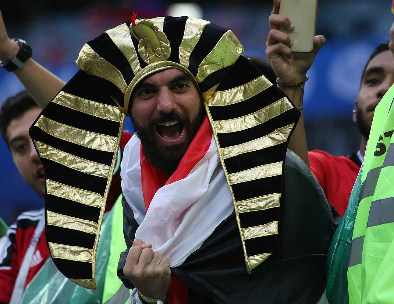 Egypt and Russia match at the FIFA World Cup 2018-06-19